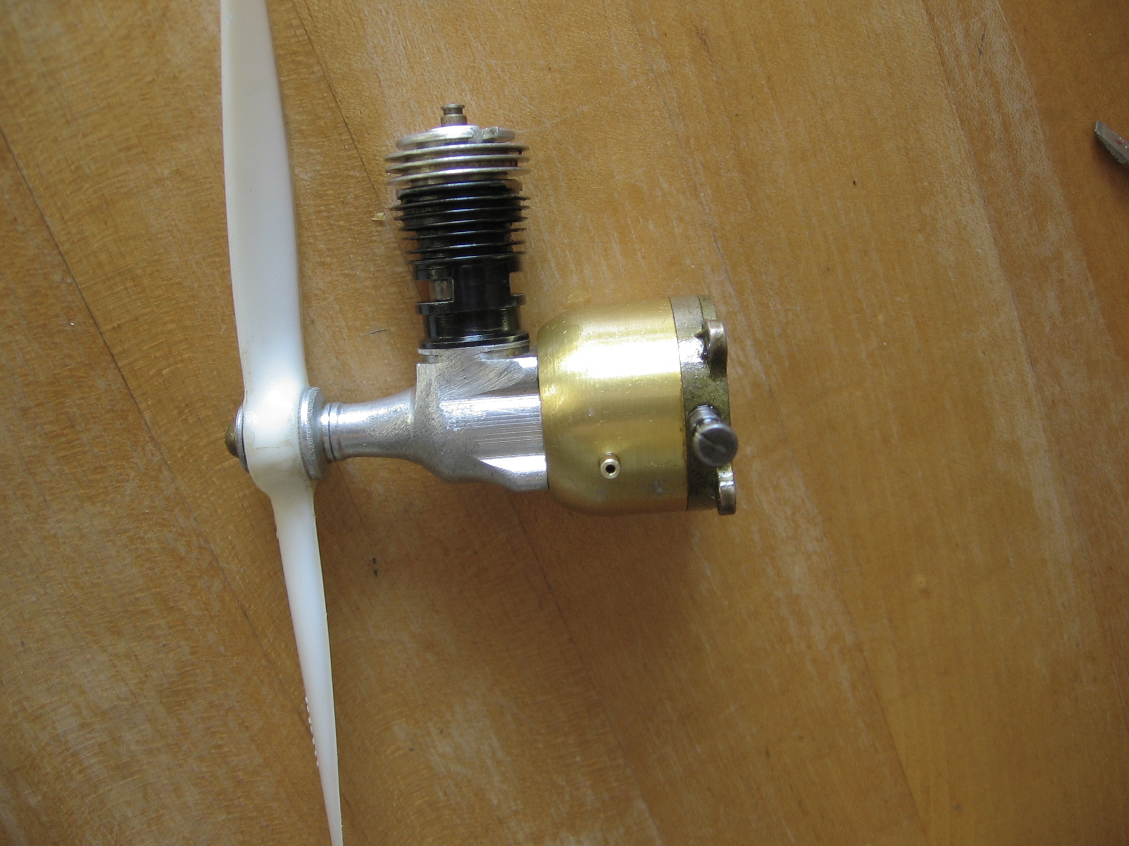 This is the same engine after re-assembling it. See File:Cox Sure Start dissasembled.JPG